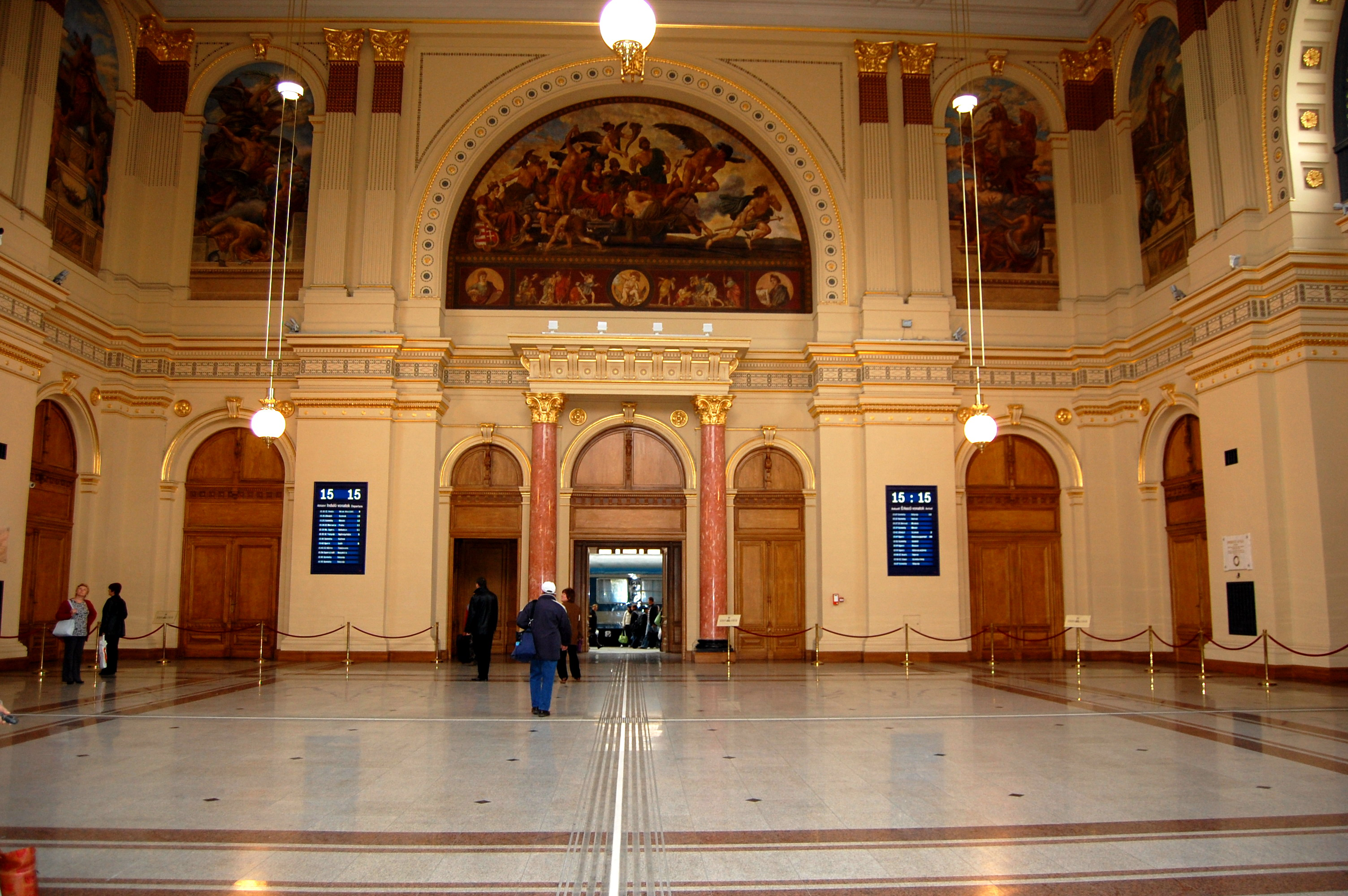 Budapest Eastern Railway Station, Lotz-hall, Hungary